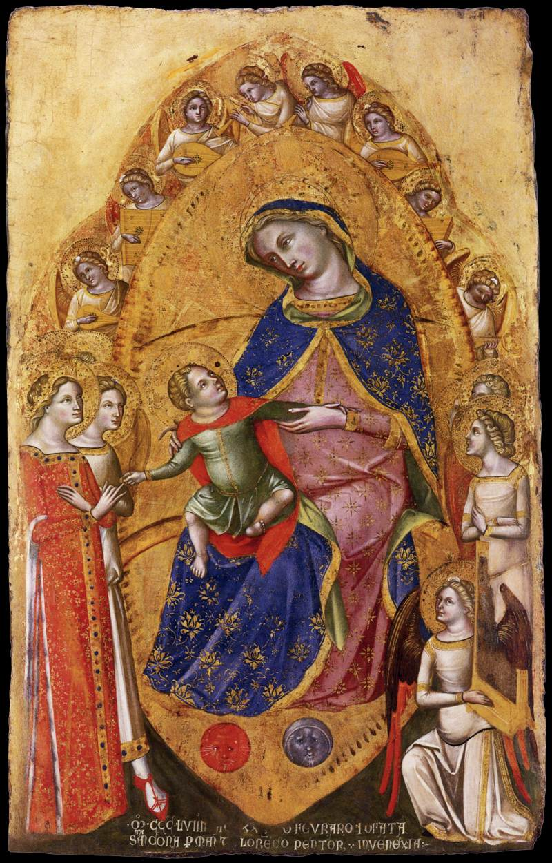 Marriage of St Catherine